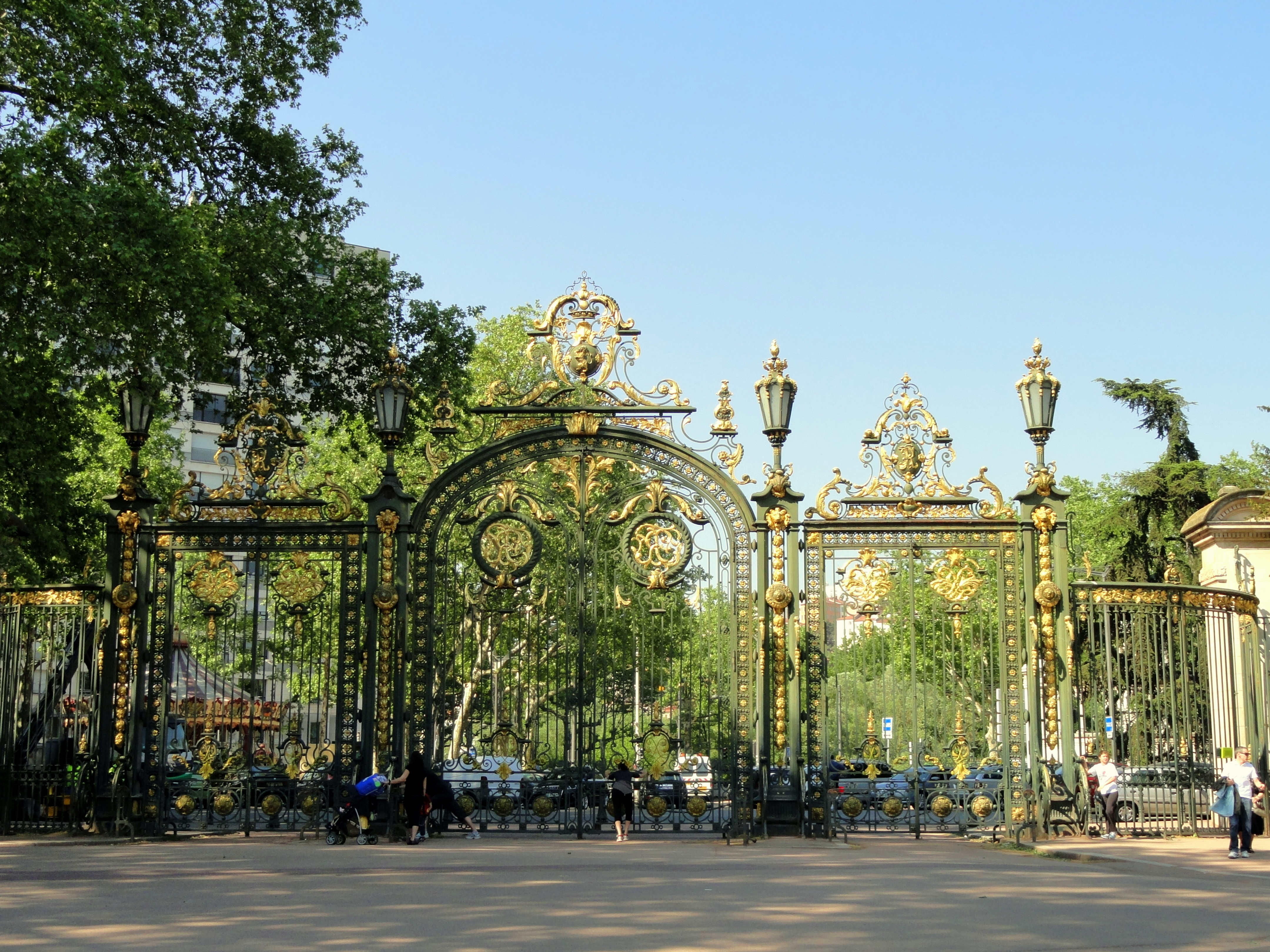 Enfants du Rhône gate, Parc de la Tête d'Or, Lyon, France.